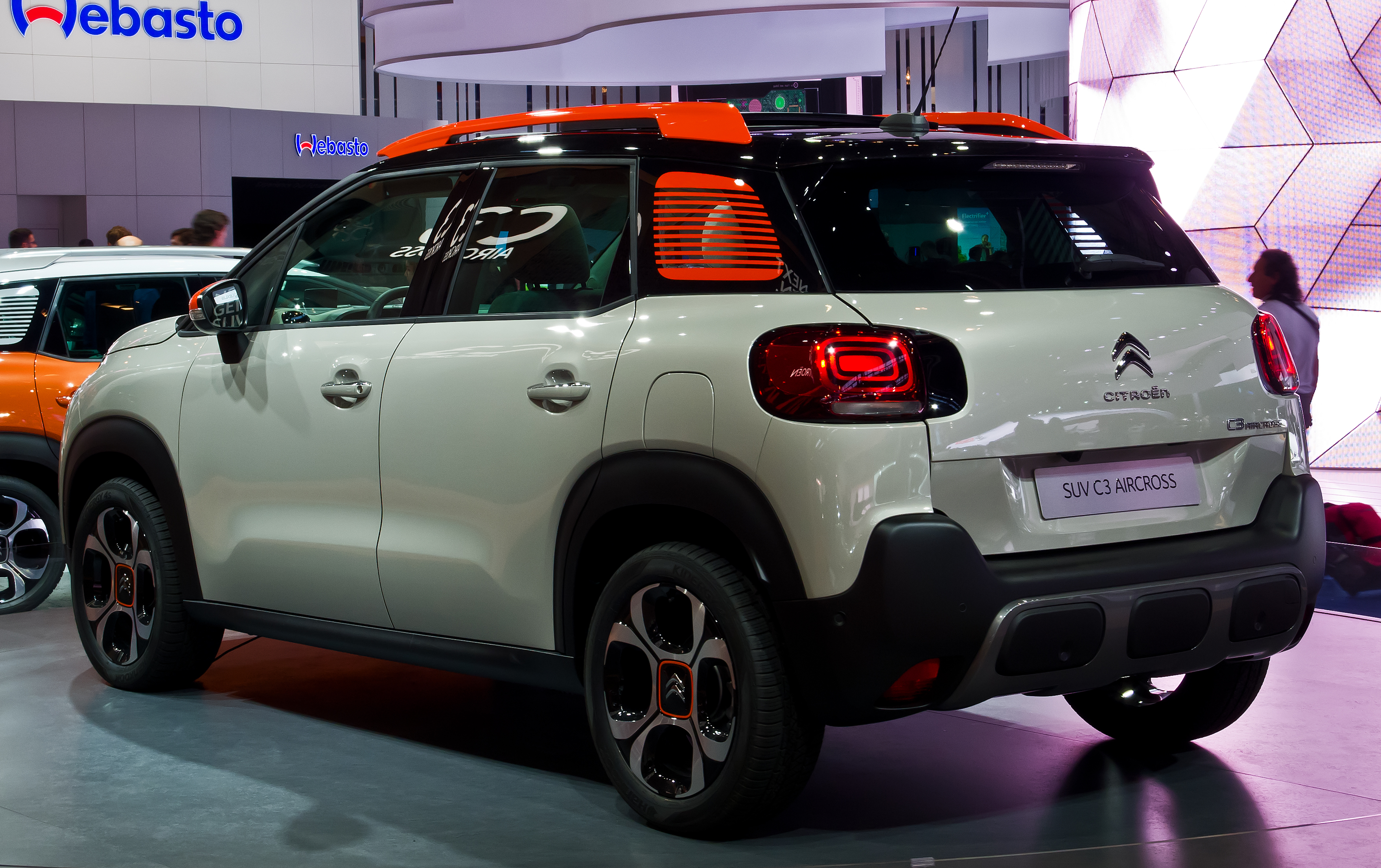 Citroën C3 Aircross PureTech 130 Shine